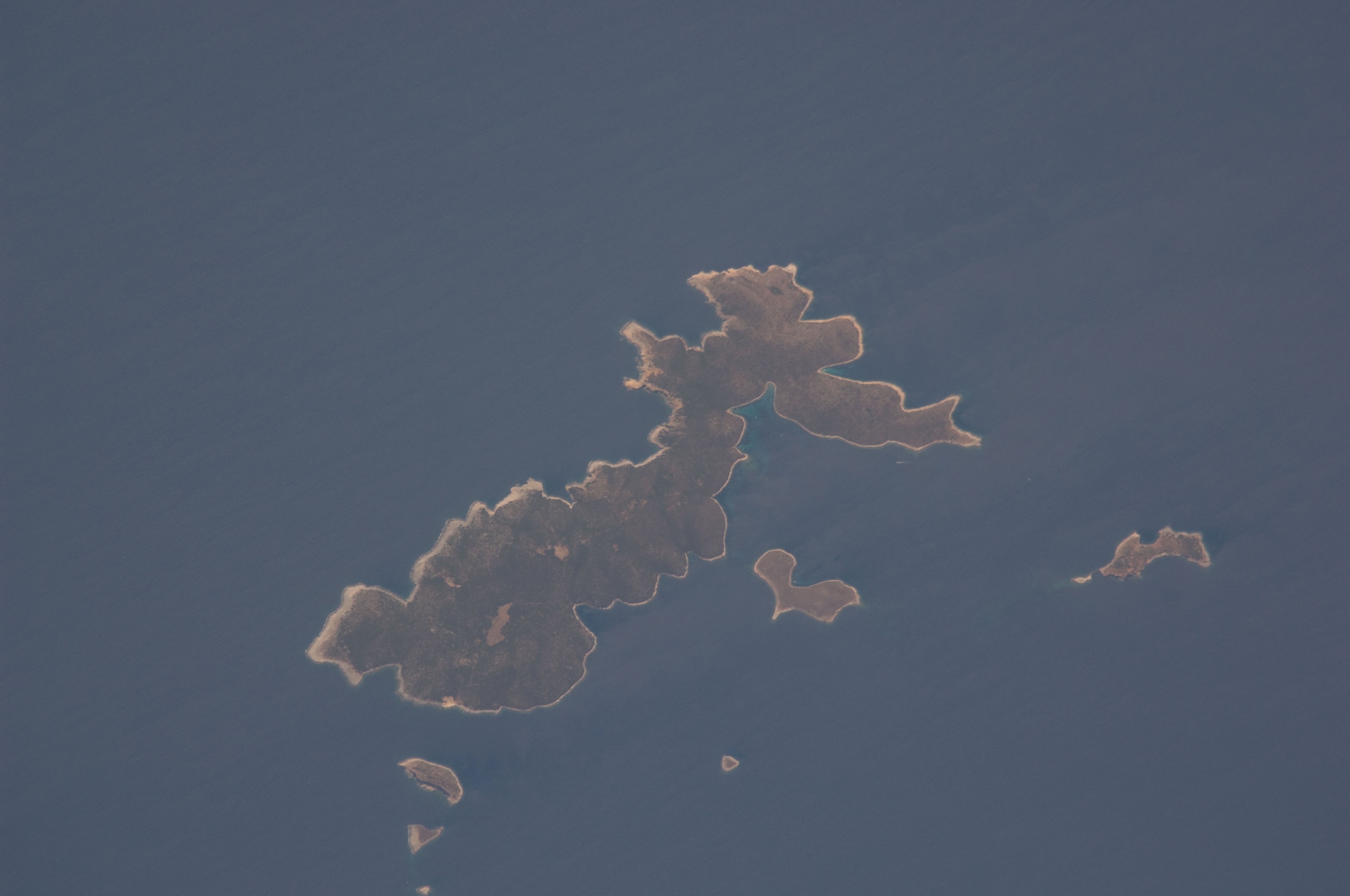 Greek Island Skantzoura from space